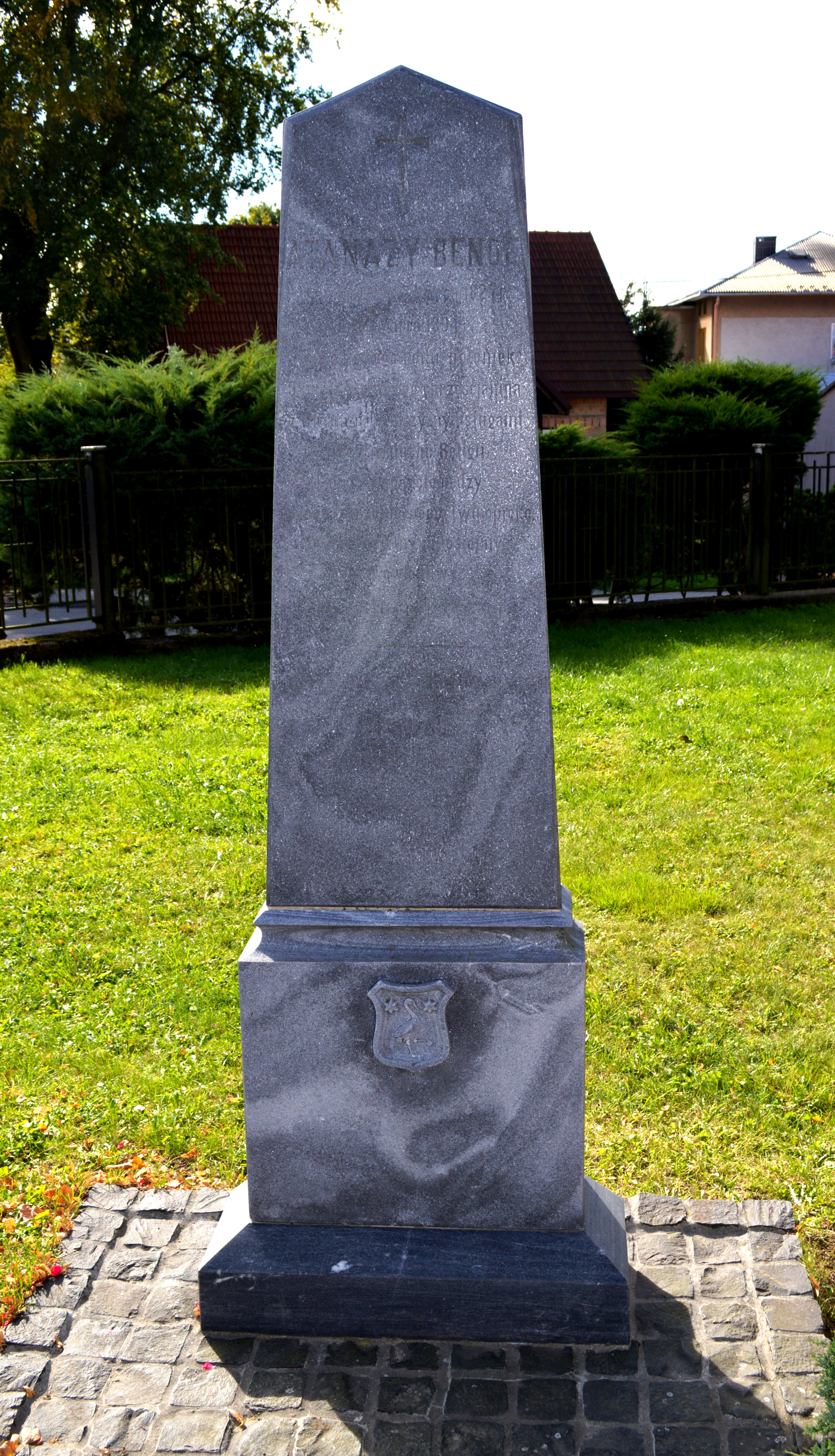 Atanazy Benoe Memorial at Niegowić Church. Athanasius Benoe (pl), patriot and politician, was born in 1827 and died in 1894, in Vienna. He was the owner of a a large estate that included the village of Niegowić and the Manor House, later owned by squire Włodek. His father Konstanty Jan Nepomuk Benoe (Taczała coat of arms (pl)), married baroness Justyna Borowska (Jastrzębiec coat of arms pl)), and took part in the November Uprising. Athanasius 'participated' in the Kraków Uprising (time of Battle of Gdów) and after entering the National Parliament for Western Galicia in 1861 joined the January Uprising in February 1863. In August 1863 he was arrested and transported to prison in Lviv in June 1864 but with no evidence to condemn him he was released. In 1865 Ludwig Wodzickiego was elected to the Parlaiment in his place but he returned to political life in 1882, when he was elected to the Austro-Hungarian parliament in Vienna as a representative of Bochenska. Athanasius was first elected Vice President of the ‘Polish Circle’ and then President, which position he retained until his death at the age of 67. He was the last of the Benoe family. [Athanasius provided funding for the mound and monument in Gdów Cemetery commemorating the 154 'insurgents' killed during the Battle of Gdów in 1846.] The Scotch Mist Gallery contains many photographs of historic buildings, monuments and memorials of Poland.